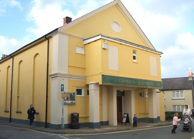 Theatr Gwaun Fishguard's cinema (public and film club) since 1926, theatre (since 1994) and venue for other live entertainment. The W.I. country market also takes place here. In its earlier incarnation (1881) it was a Temperance Hall.